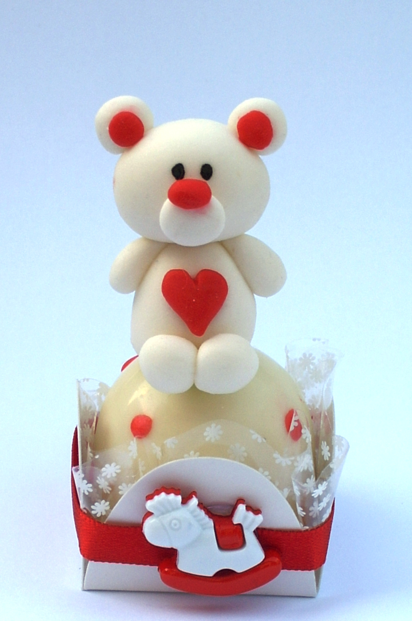 Chocolate truffle with bear and heart by ana fuji.